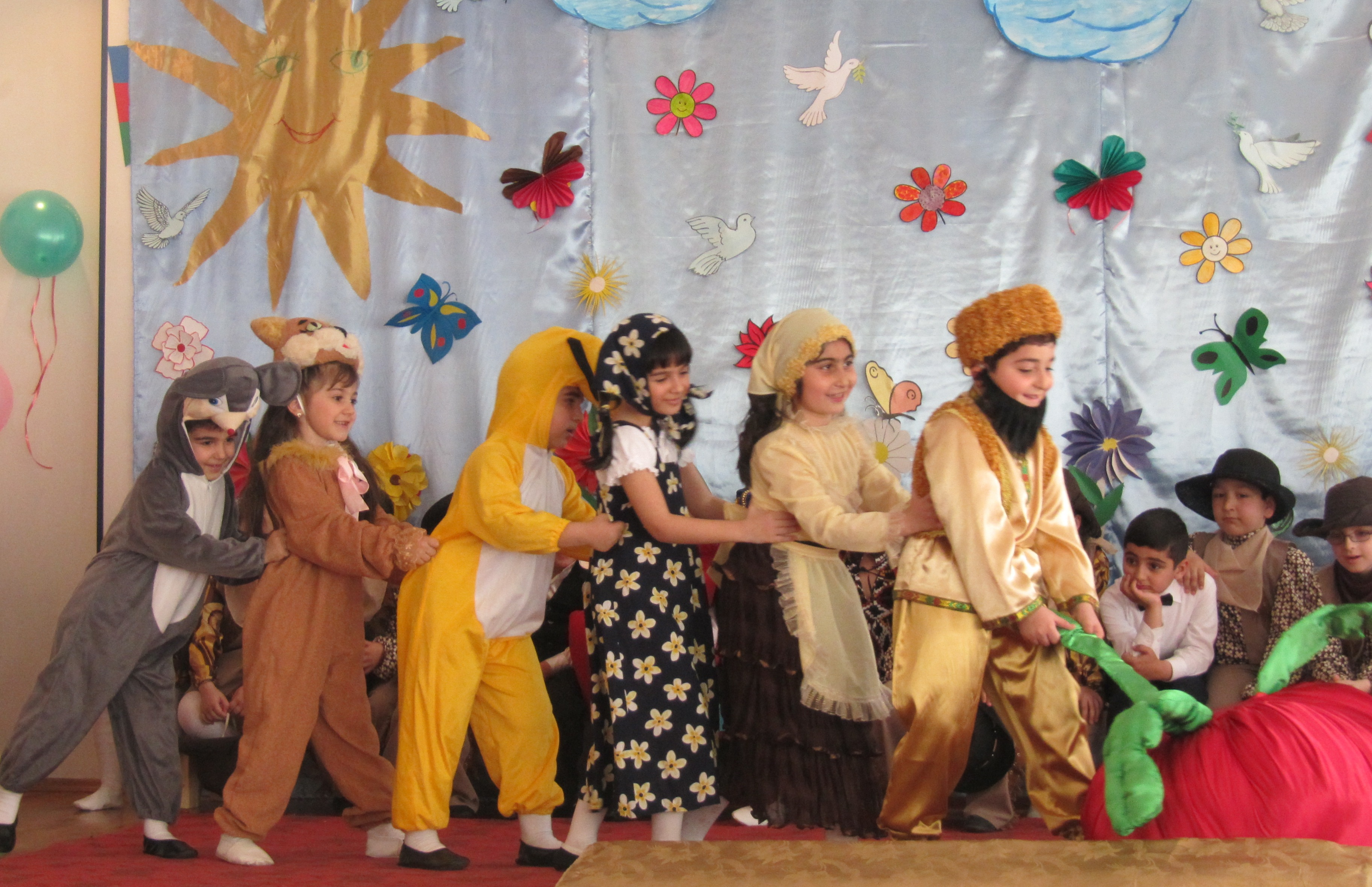 Azerbaijan children activity.